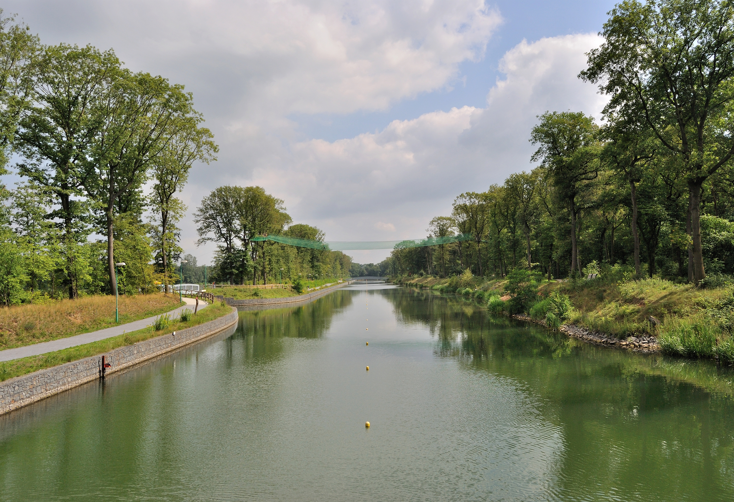 Duisburg (North Rhine-Westphalia, Germany) – sports park – canal ParallelkanalThis photograph was taken with a Nikon D3000